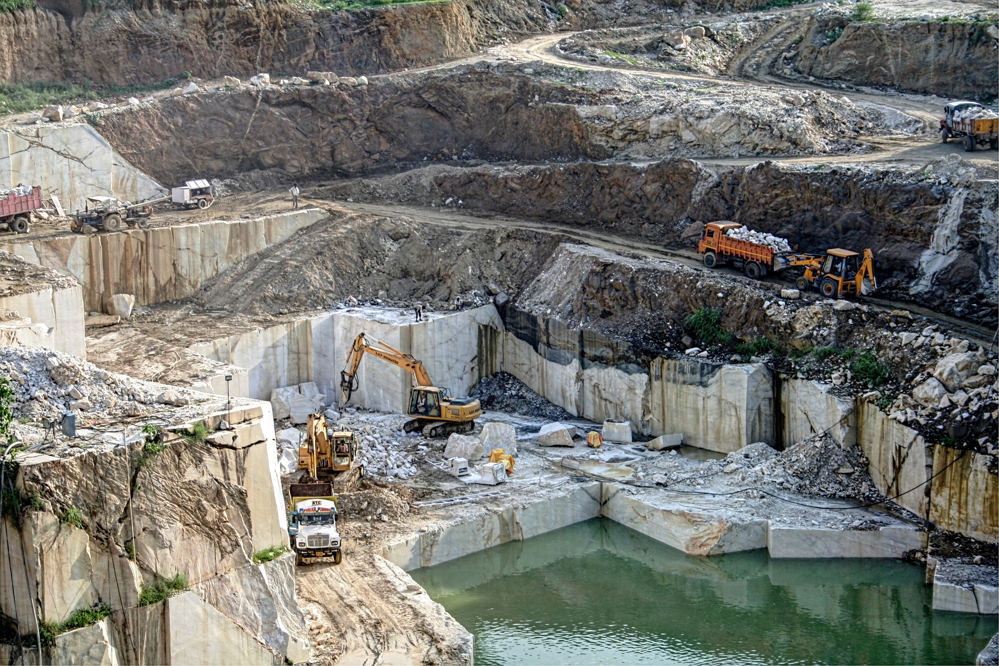 Marble quarry, near Jaipur, Rajasthan, India.